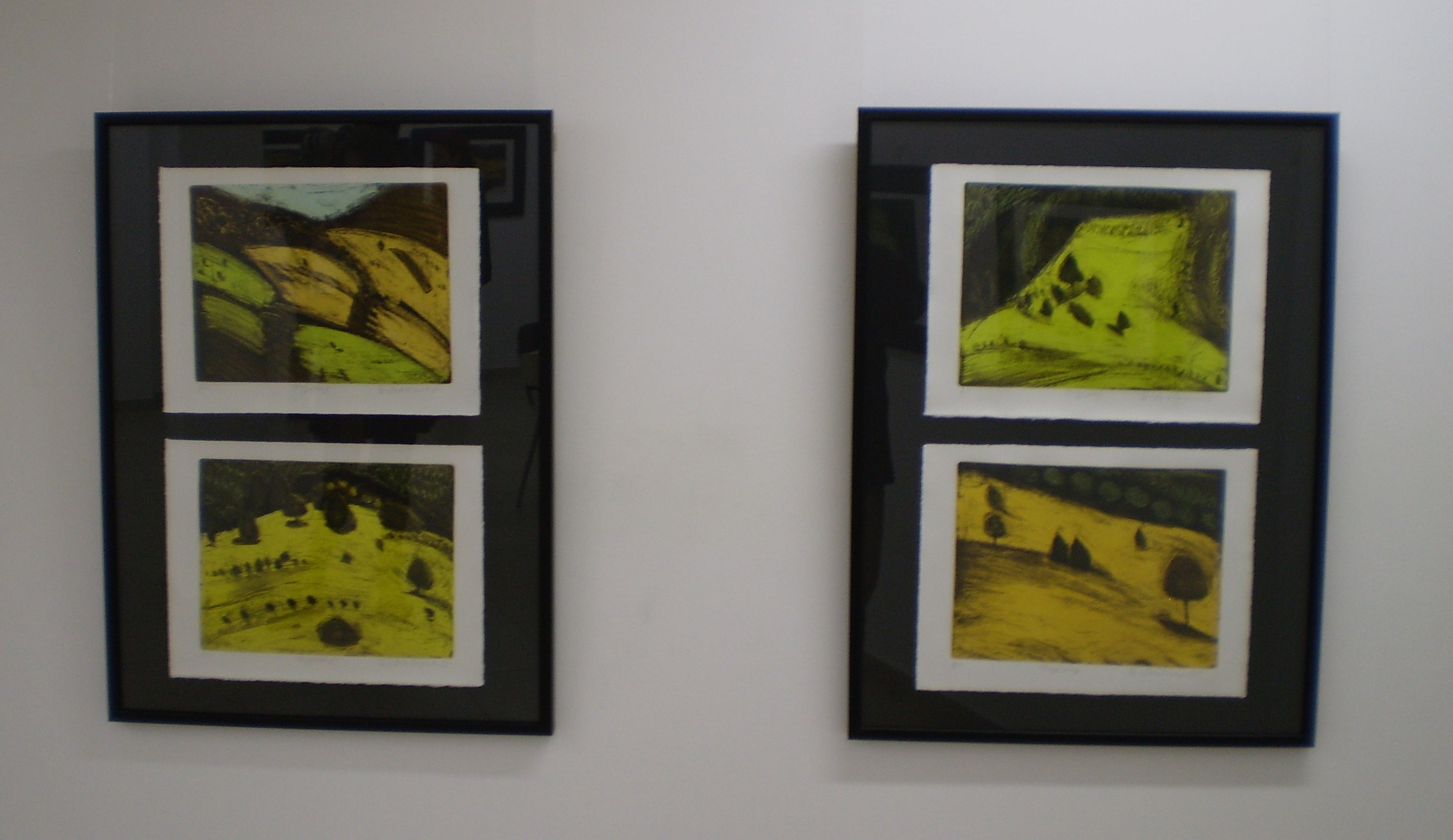 Gallery art55, Exhibition of Biljana Vukovic, Niš, Serbia, 2016.